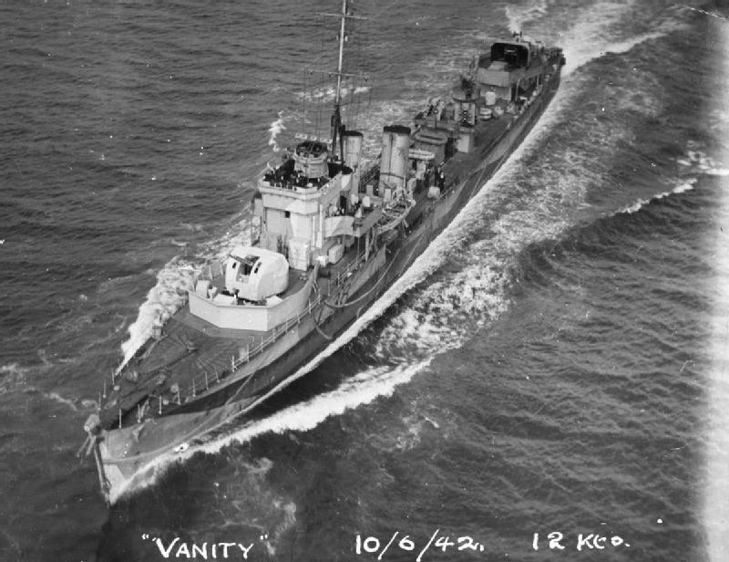 HMS Vanity underway.